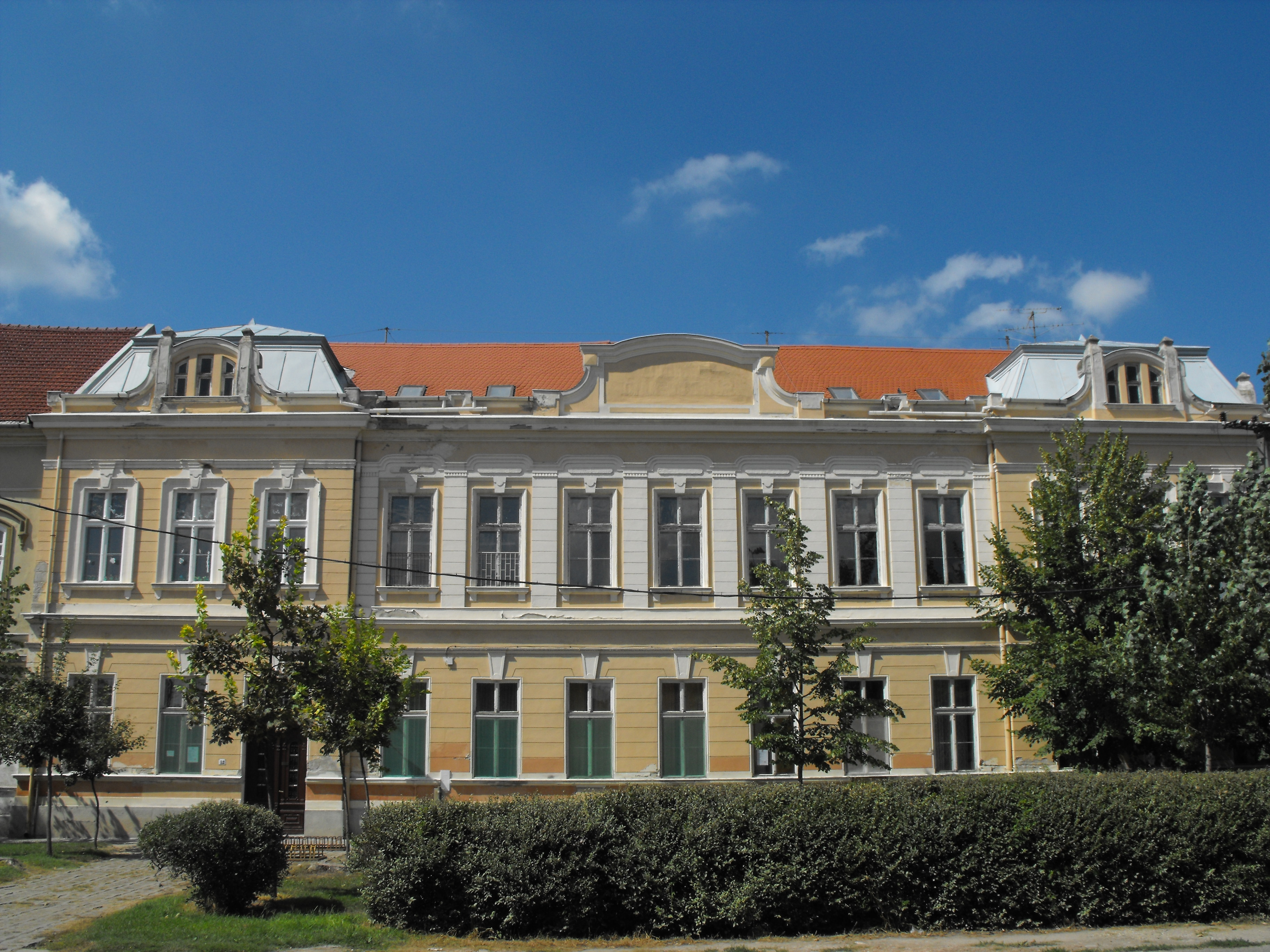 The younger wing of the building of the former boarding school in Makó, Hungary; nowadays it is functioning as a primary school.